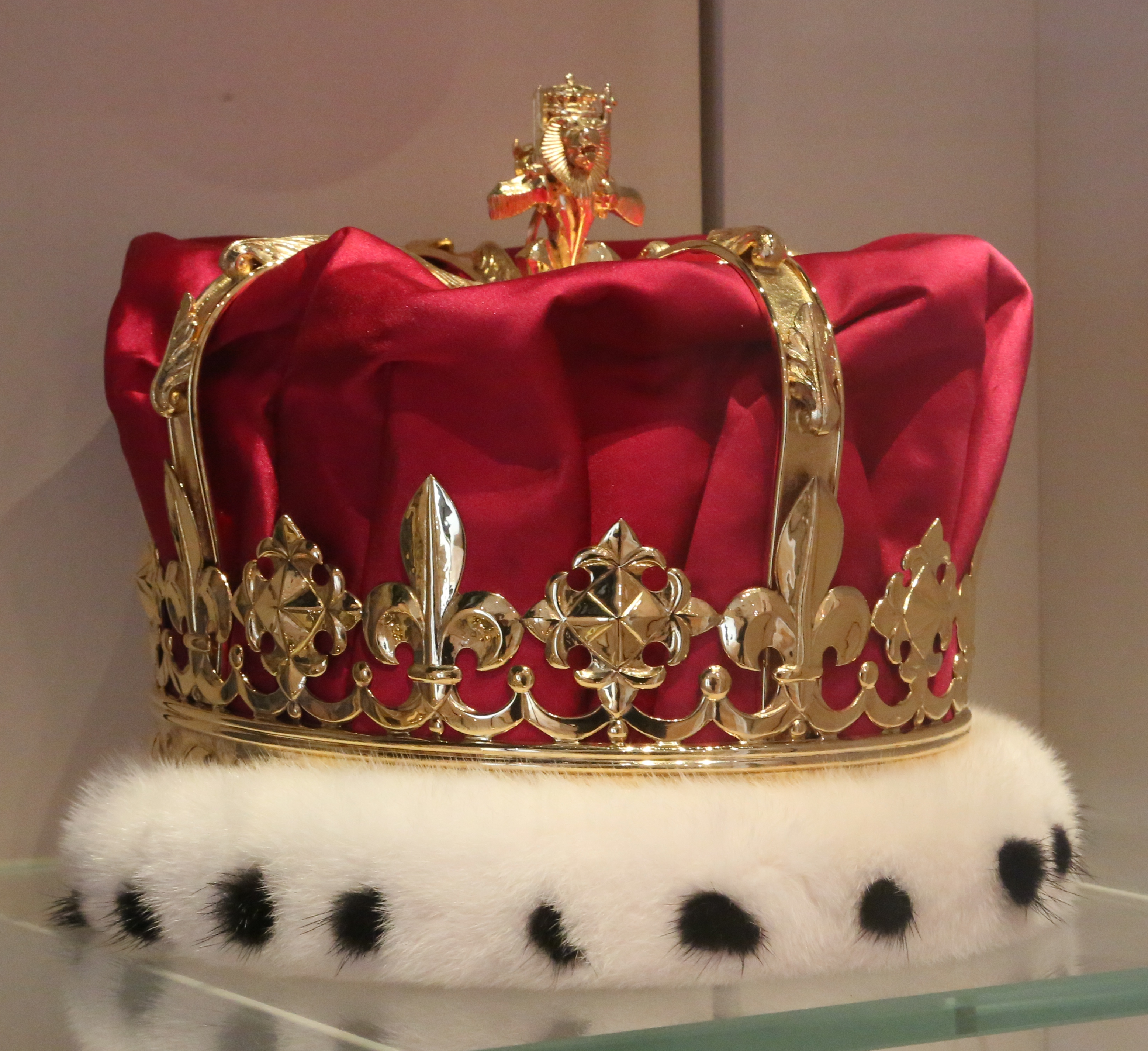 Photo of the crown of Lord Lyon King of Arms with its removable arches in place